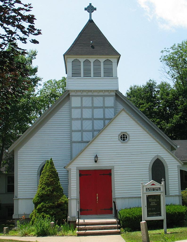 St James Church, North Providence, Rhode Island, USA.